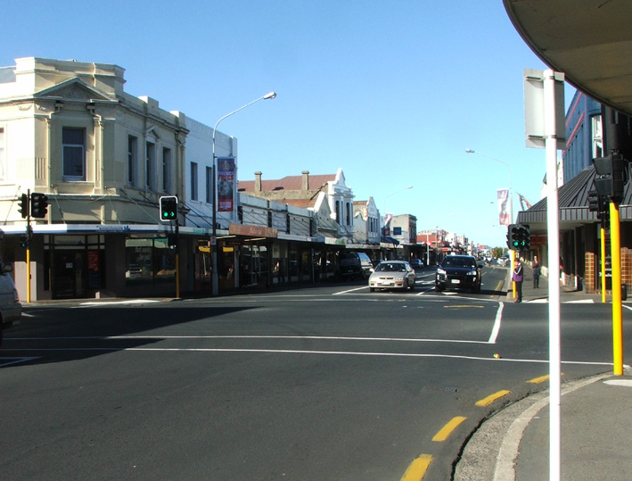 King Edward Street and Cargill's Corner, South Dunedin, New Zealand. Photograph by James Dignan (User:Grutness), 3 May 2009.